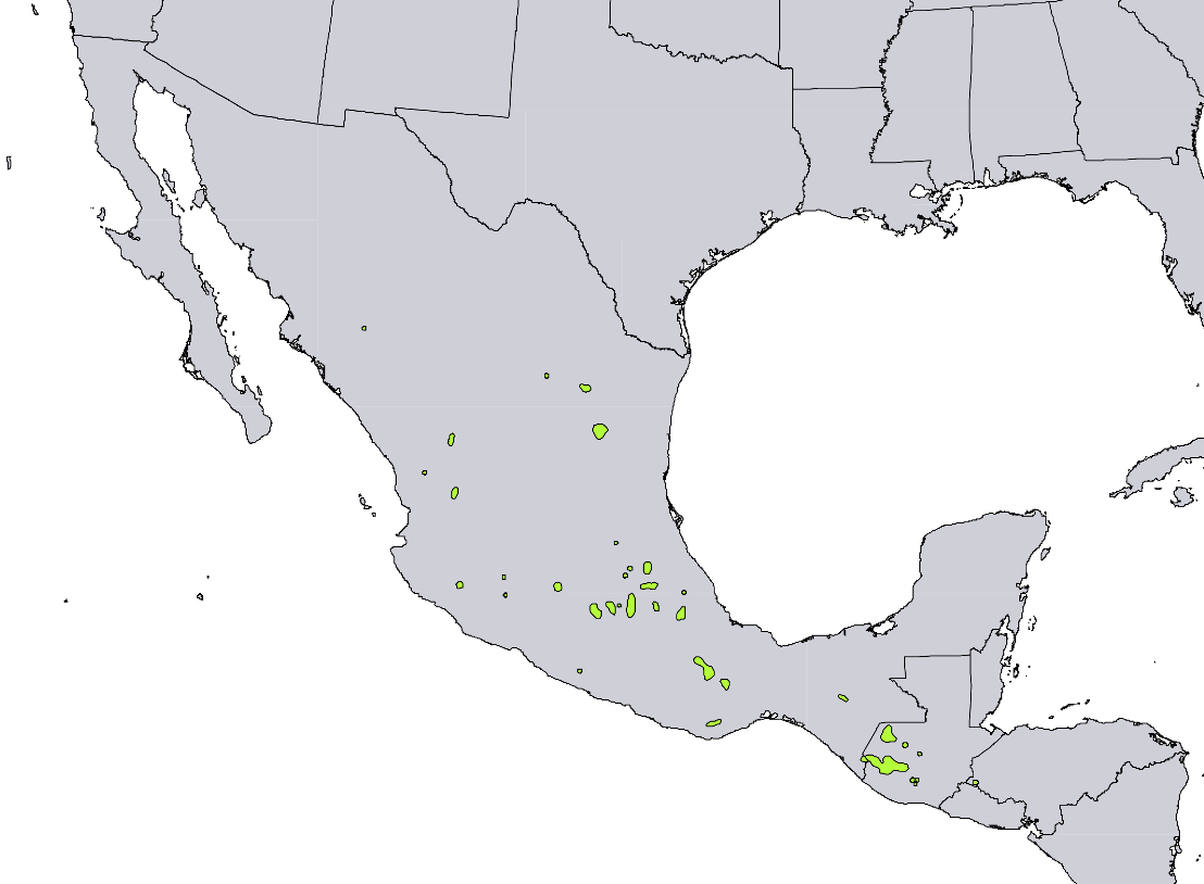 Range map of Pinus hartwegii